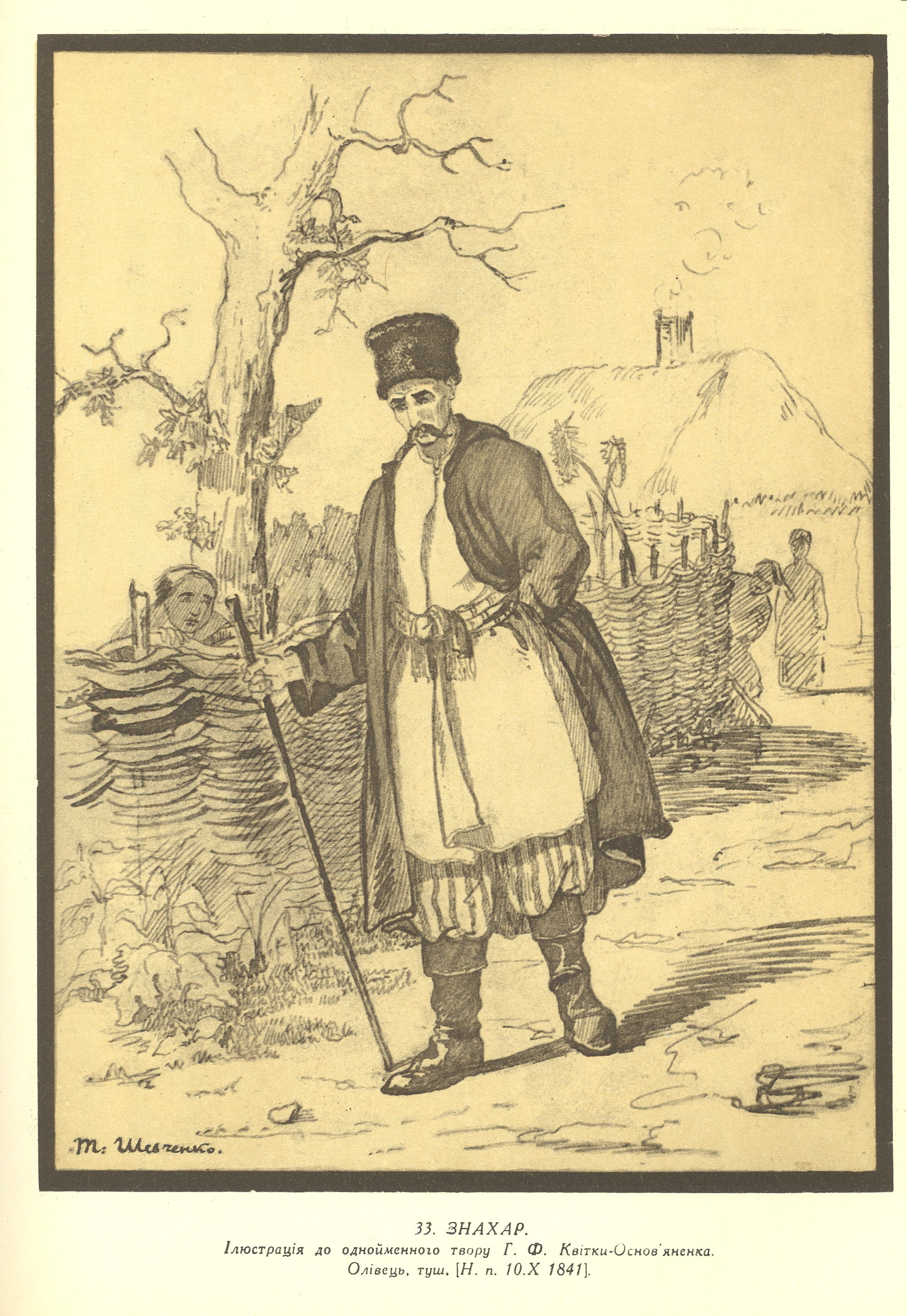 Painting of Taras Shevchenko